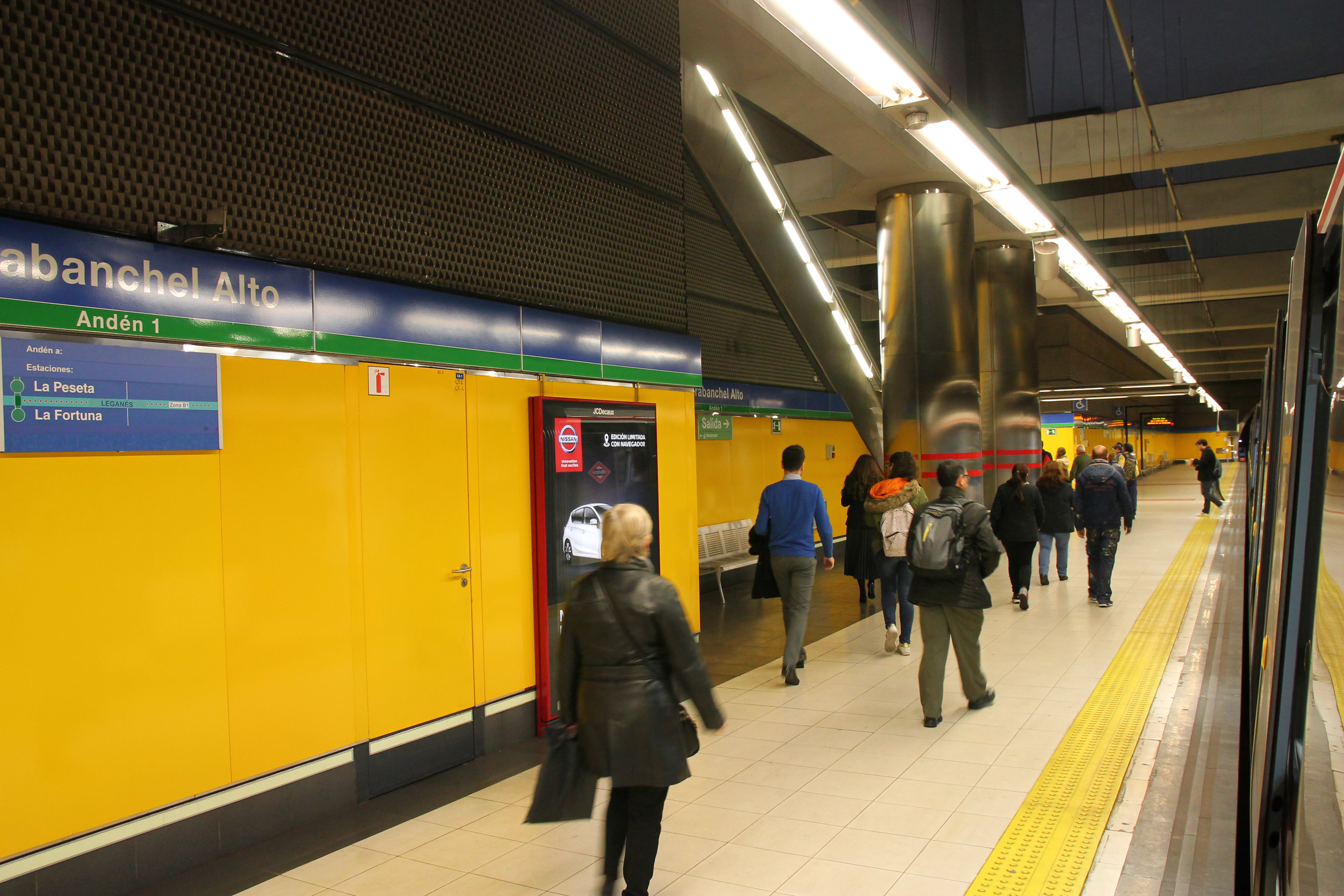 Estación de Carabanchel Alto